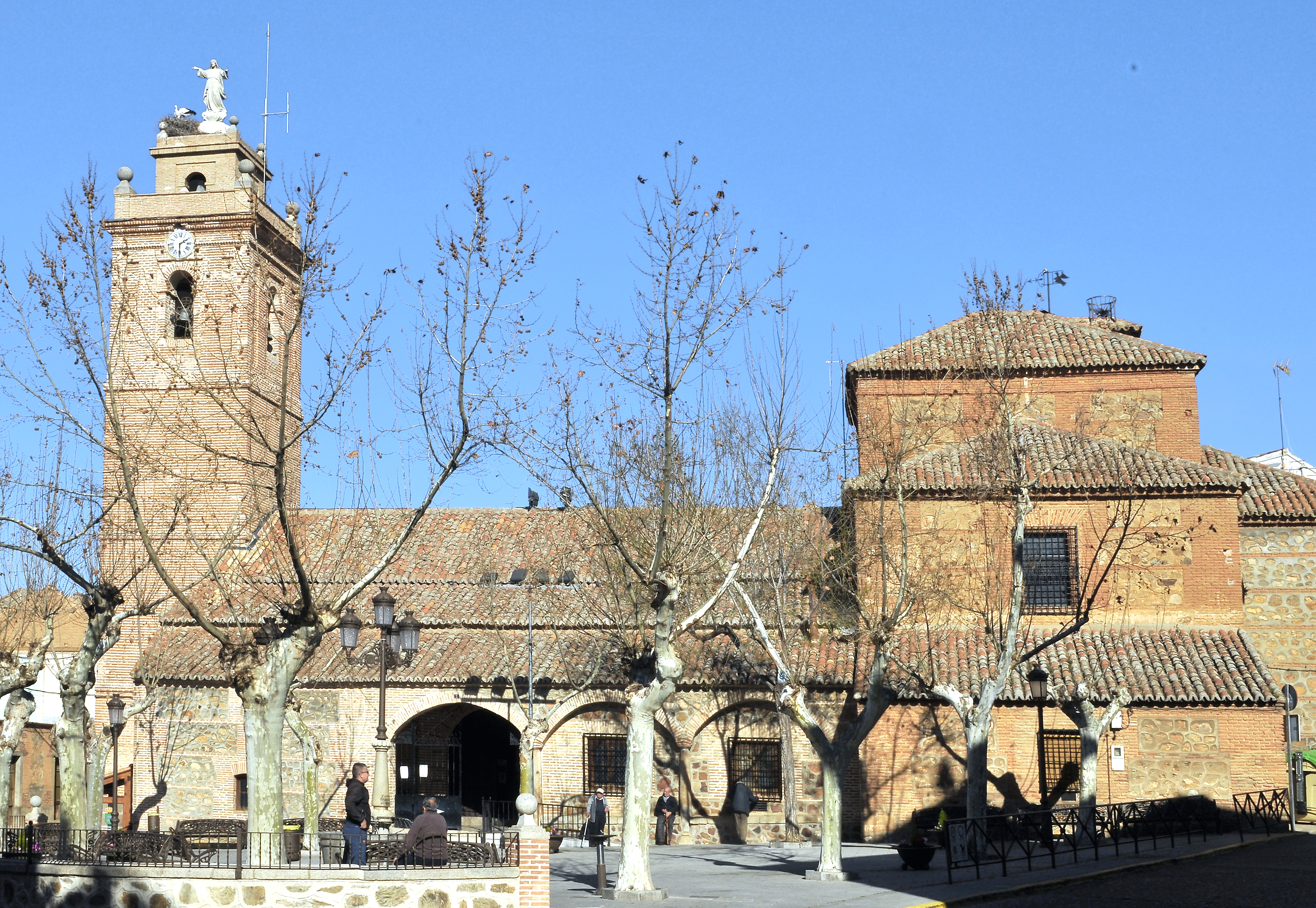 St. Sebastian Parish Church. Los Navalucillos, Toledo, Castile-La Mancha, Spain